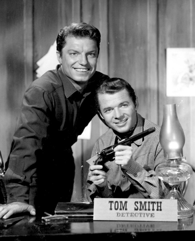 Photo of Guy Mitchell (left) and Audie Murphy from the television program Whispering Smith.